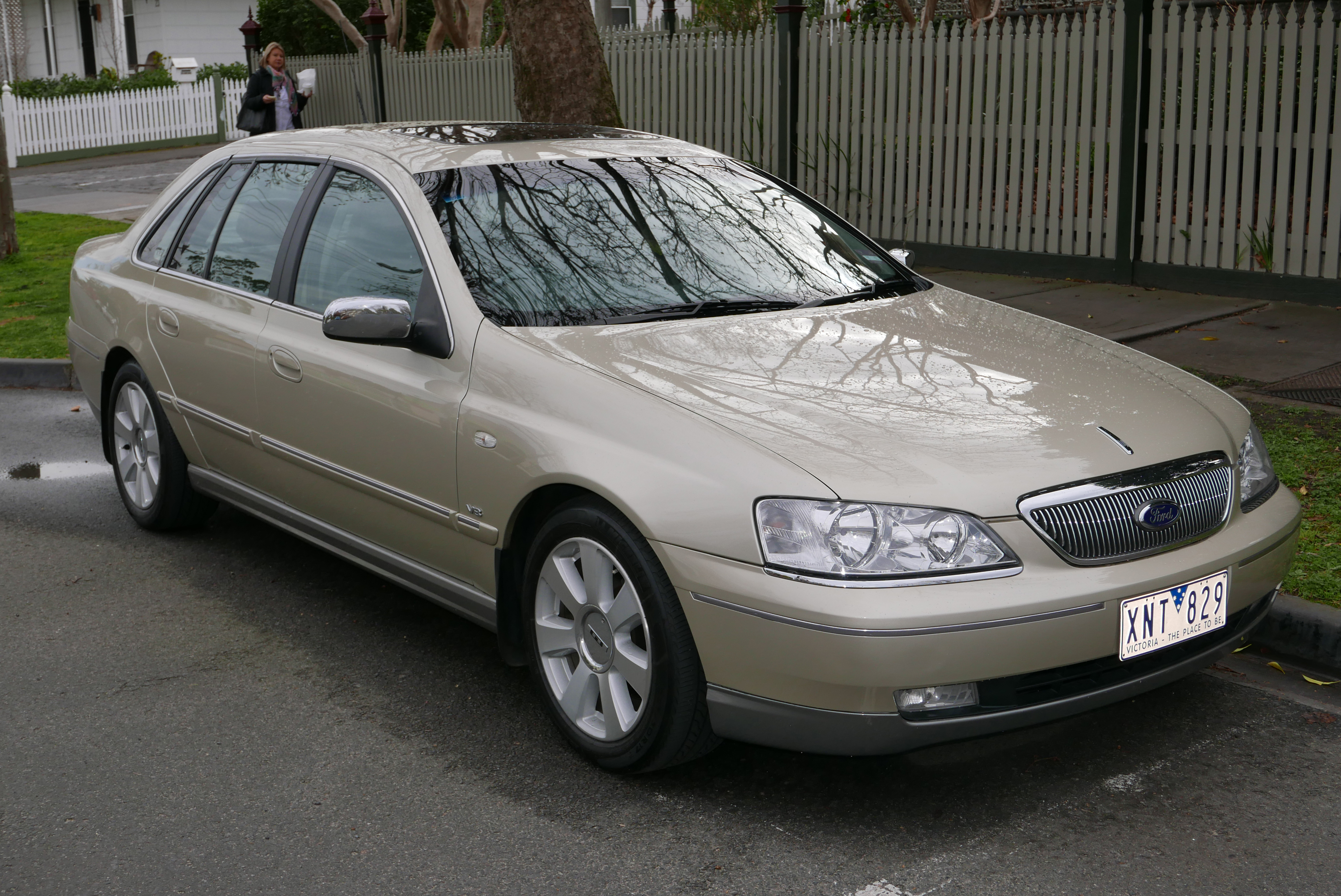 2006 Ford LTD (BF) sedan. Photographed in Hawthorn East, Victoria, Australia. Vehicle registration enquiry resultsJurisdictionVictoriaRegistrationXNT829Chassis code6FPAAAJGLW6Y59858Engine codeJGLW6Y59858Compliance date2006-02Year of manufacture2006